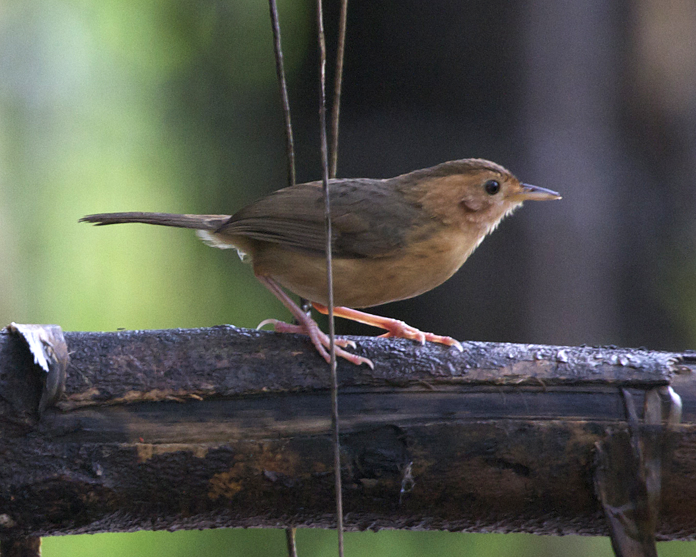 Brown-capped Babbler Pellorneum fuscocapillus, Royal Botanic Gardens, Kandy; elevation 500 m. Endemic to Sri Lanka.